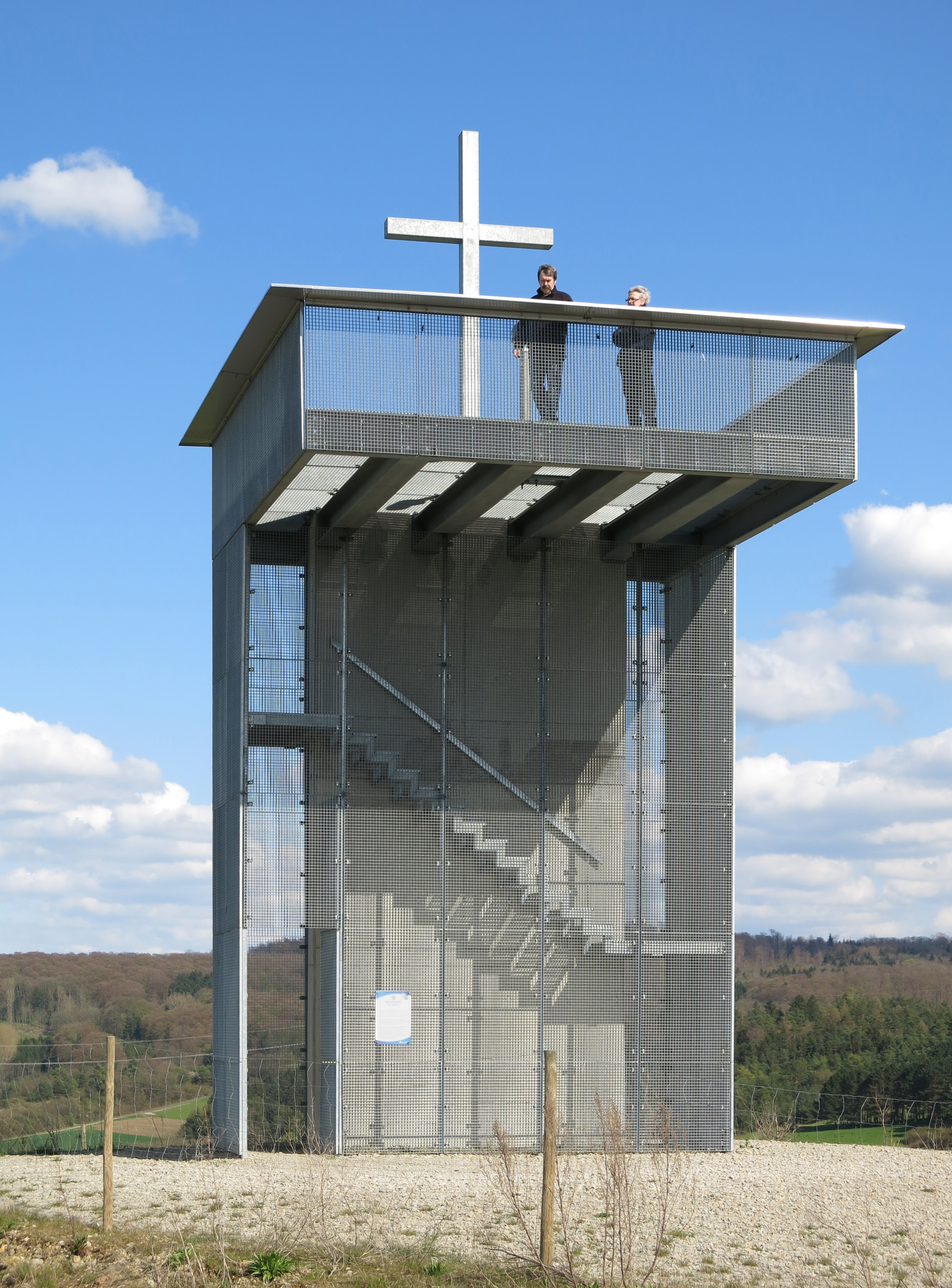 Lookout-tower on Rößberg near Hünfeld